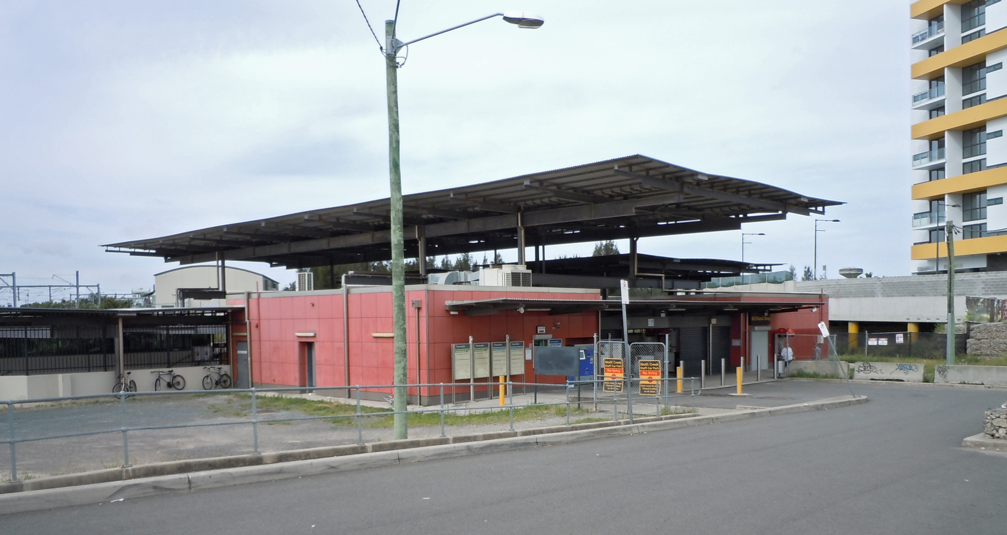 Wolli Creek railway station entrance.